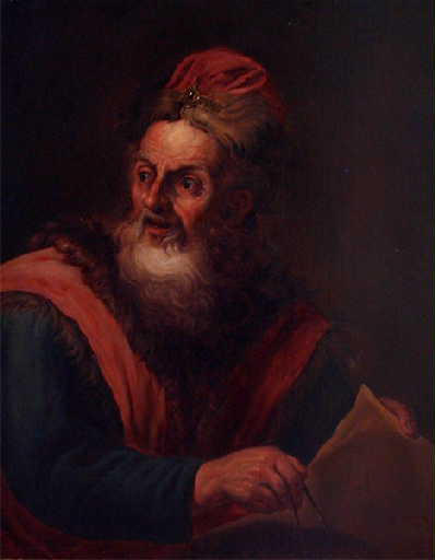 Ferdinand Magellan - painting from 3rd quarter of 19th century